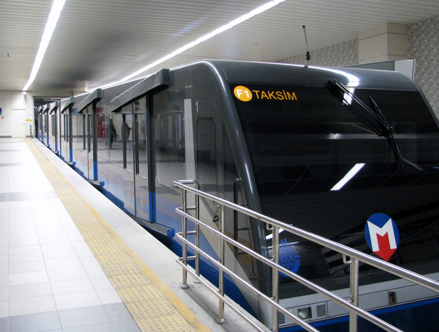 Taksim-Kabataş Funiküleri